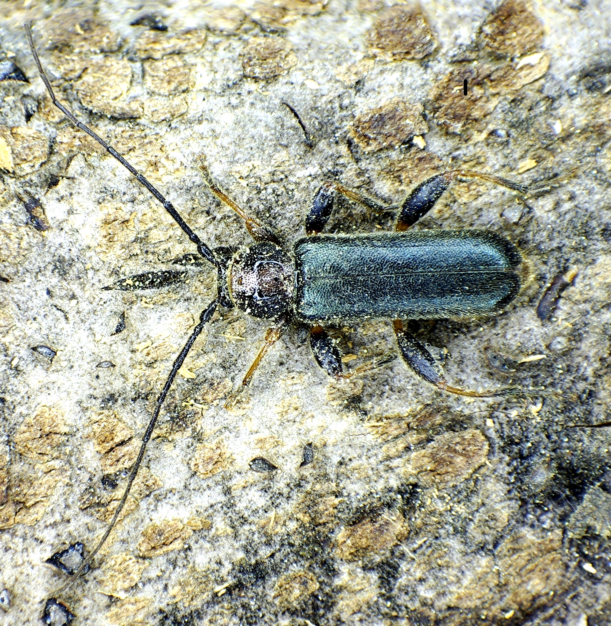 Poecilium lividum